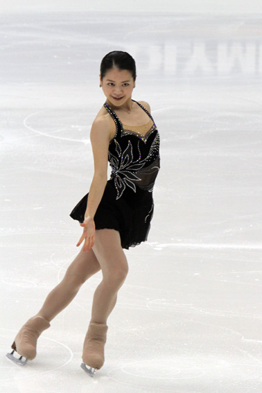 Akiko Suzuki at the 2011 Four Continents Championships.